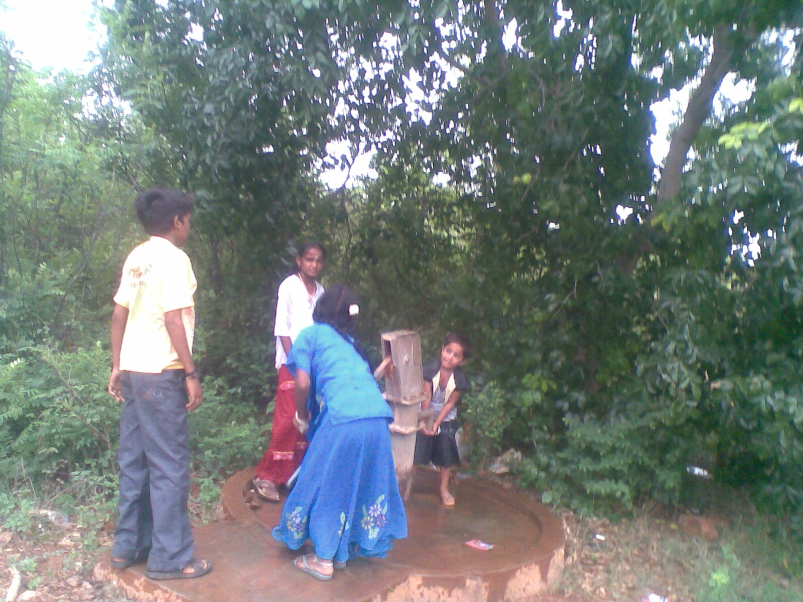 Water Pump